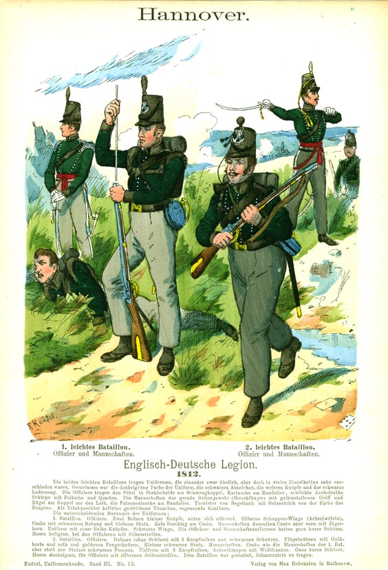 Hannover: Englisch-Deutsche Legion. 1. leichtes Bataillon. Offizier und Mannschaften. 2. leichtes Bataillon. Offizier und Mannschaften. 1812